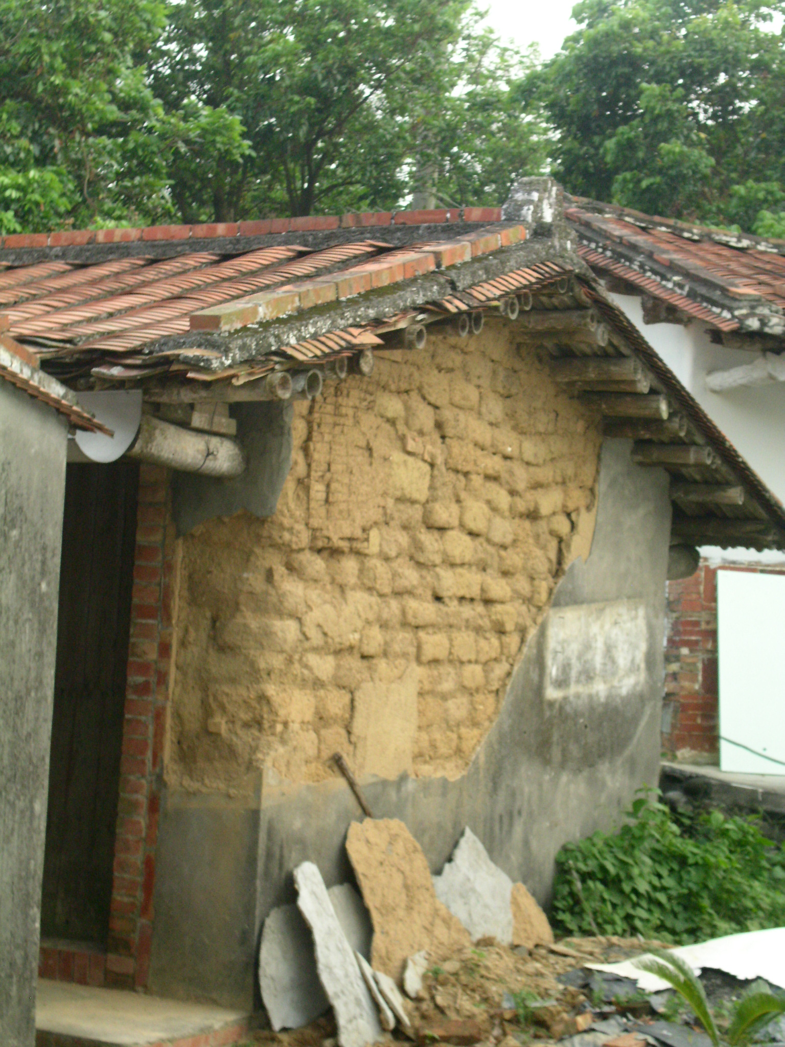 Thokatchhu (thô͘-kat-chhù, 塗墼厝)Bân-lâm-gú: 塗墼厝(thô͘-kat-chhù)